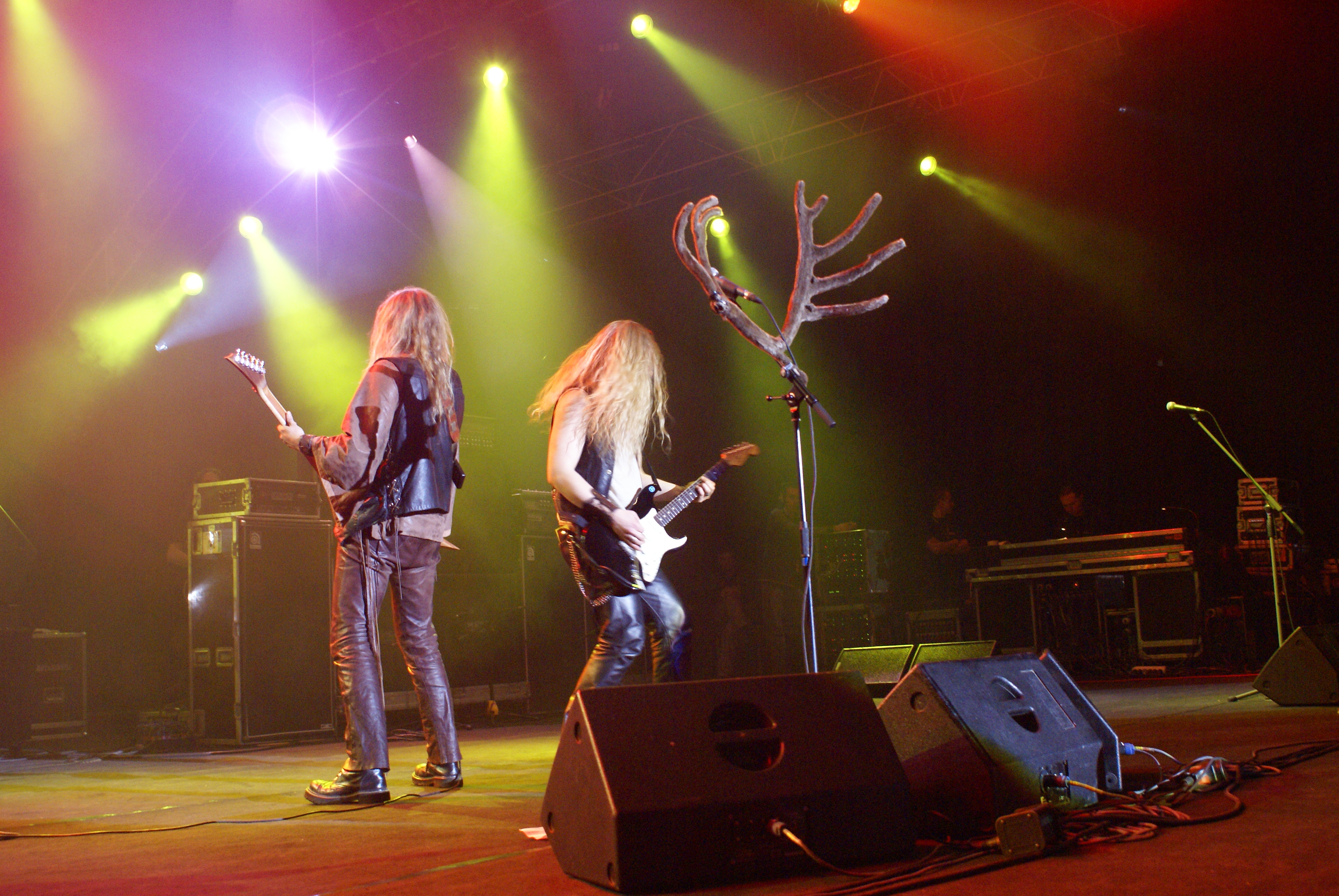 Metal band Korpiklaani during Metalmania 2007 festival